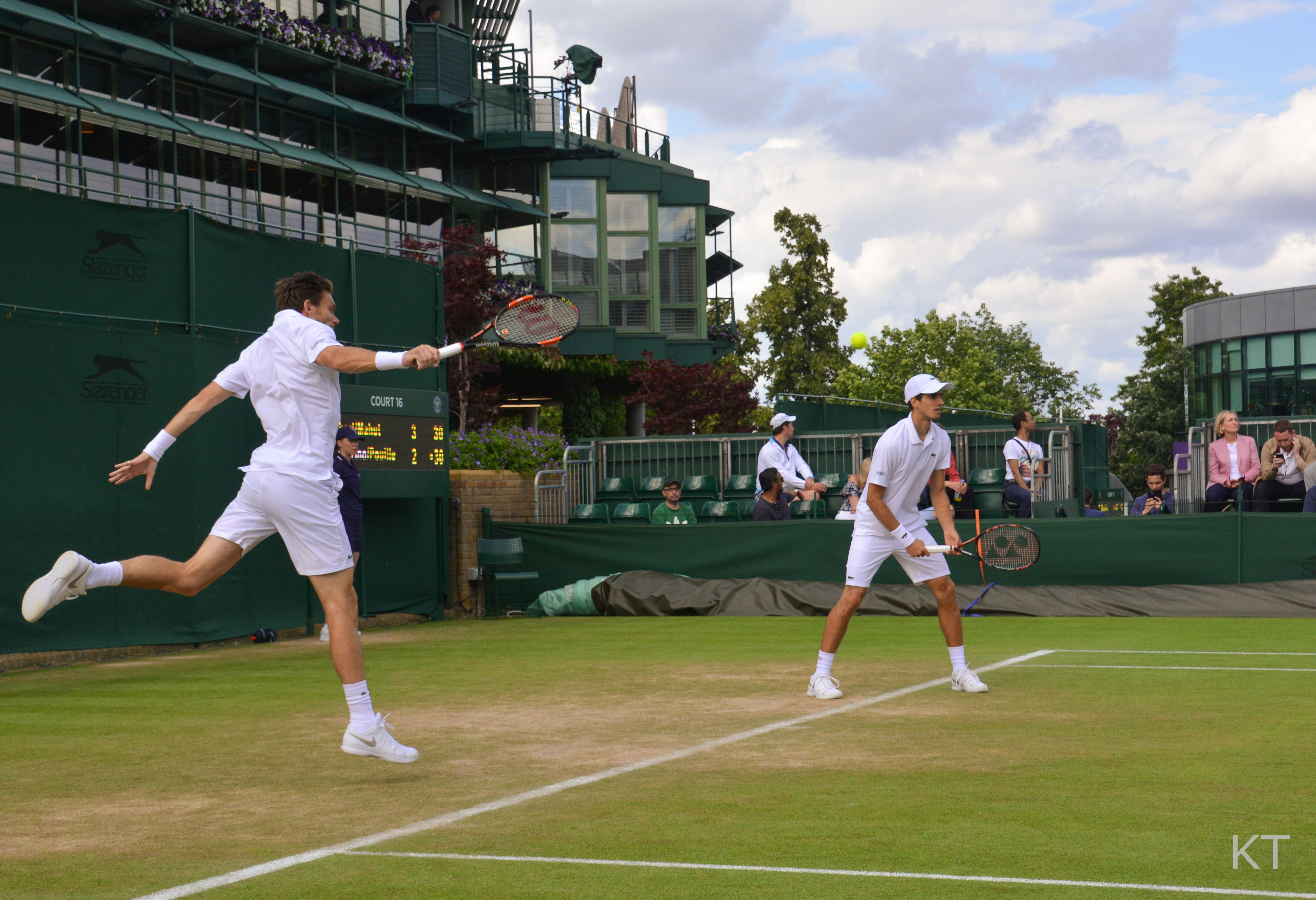 1st round doubles against Adrian Mannarino & Lucas Pouille. Middle Sunday of Wimbledon 2016.